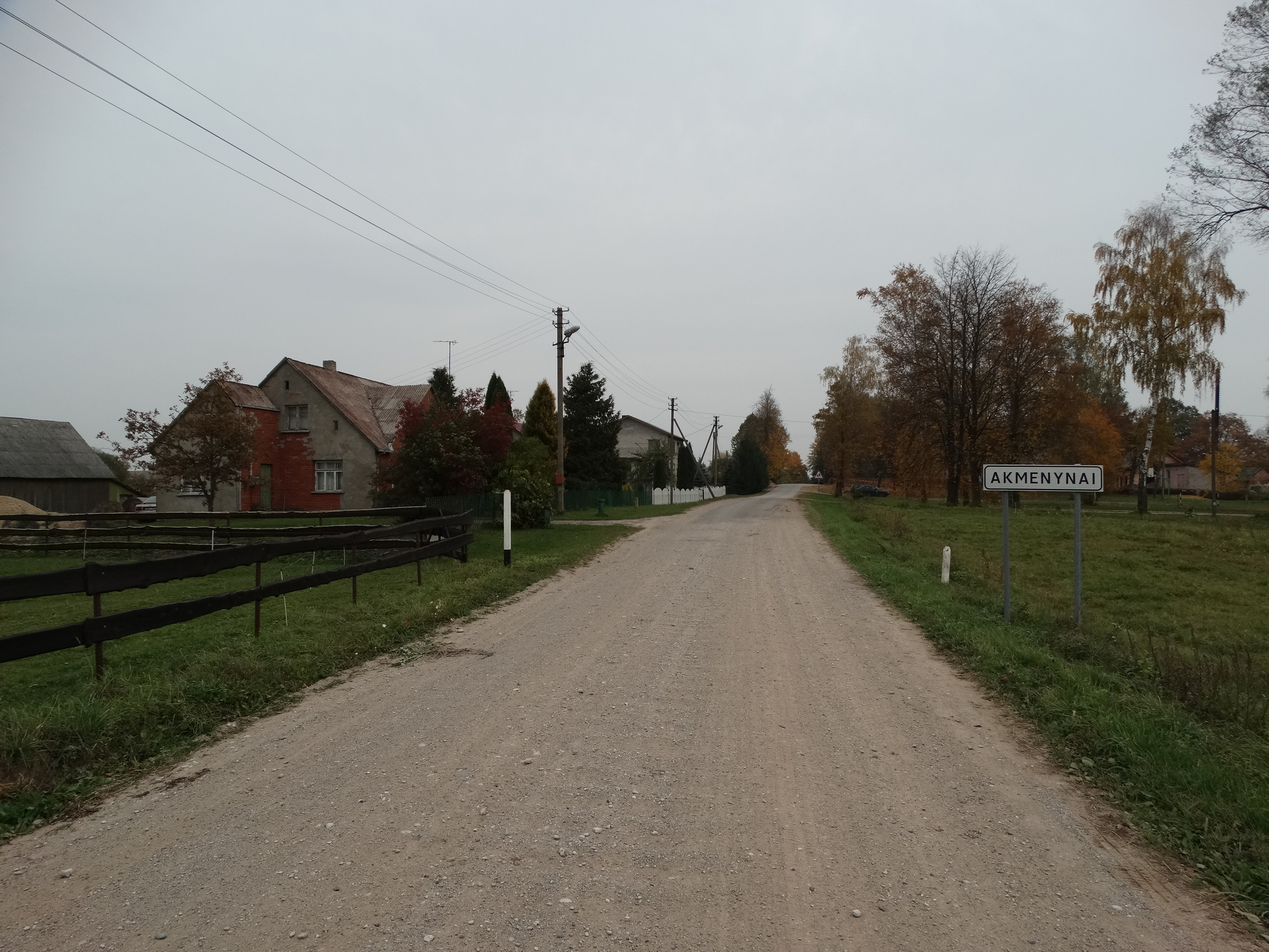 Sign, Akmenynai, Kalvarija Municipality, Lithuania